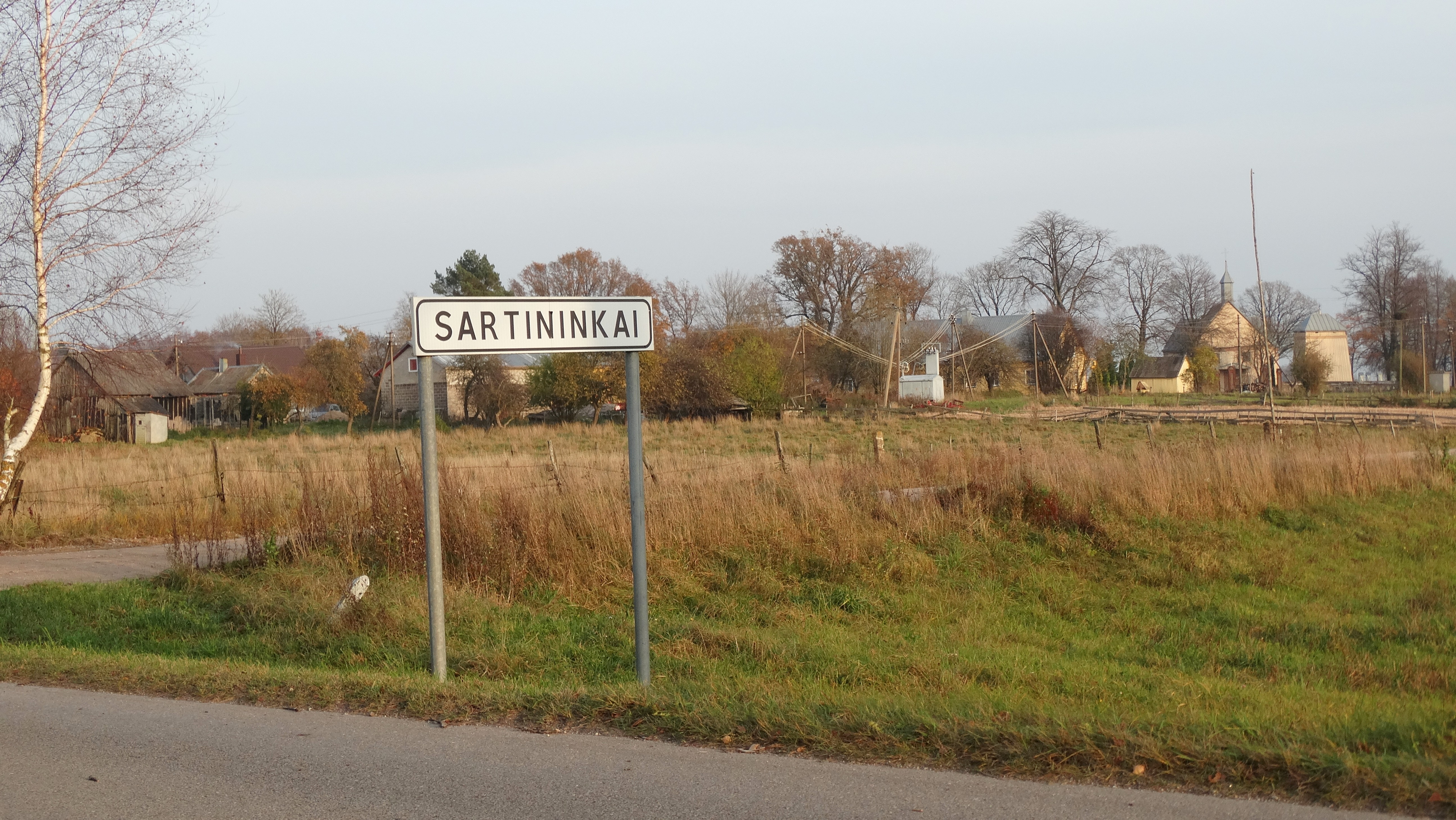 Sartininkai, Tauragė district, Lithuania